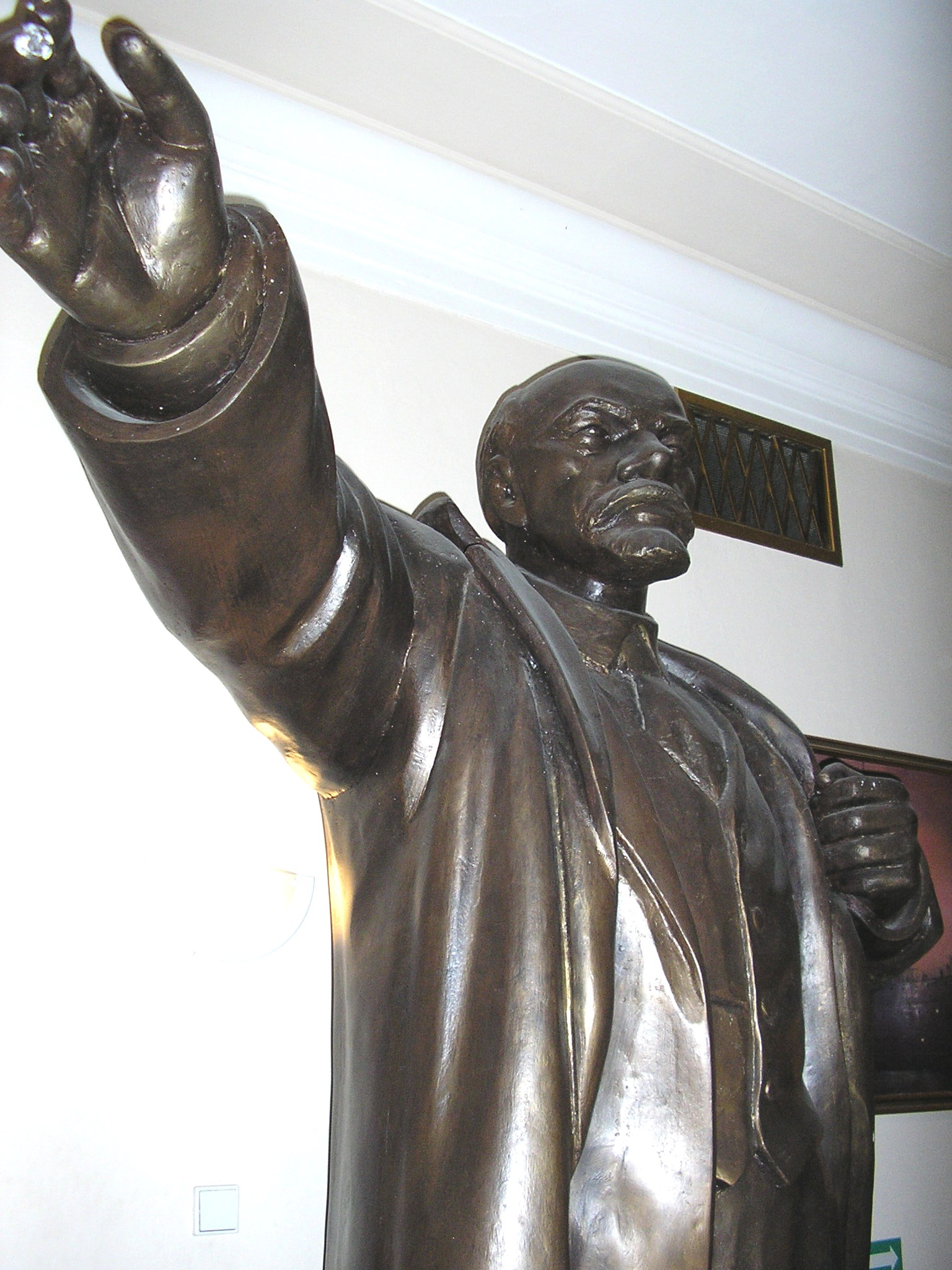 Lenin statue in the Museum of Communism (Czech: Muzeum komunismu), street Na Prikope 10, is located between the Mustek metro stop and the Nam Republiky metro stop, Prague, Czech Republic.